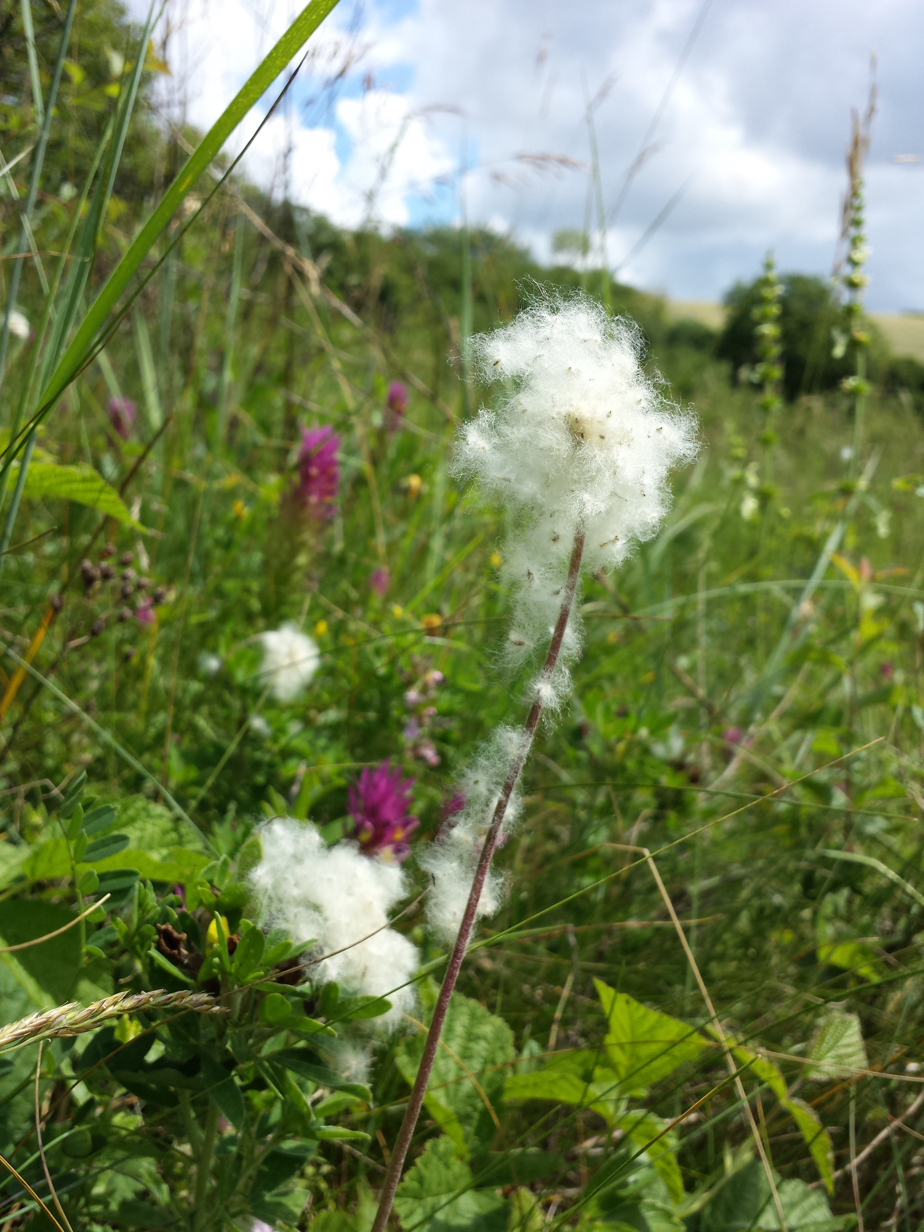 Habitus, infructescence Taxon: Anemone sylvestris (sensu Fischer et al. EfÖLS 2008 ISBN 978-3-85474-187-9) Location: Gebmannsberg, district Korneuburg, Lower Austria - ca. 320 m a.s.l. Habitat: dry grassland over Loess